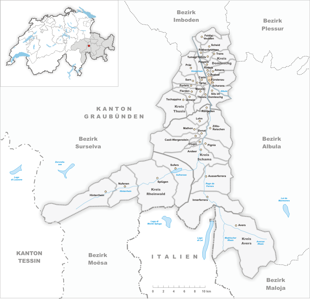 Municipality Fürstenau